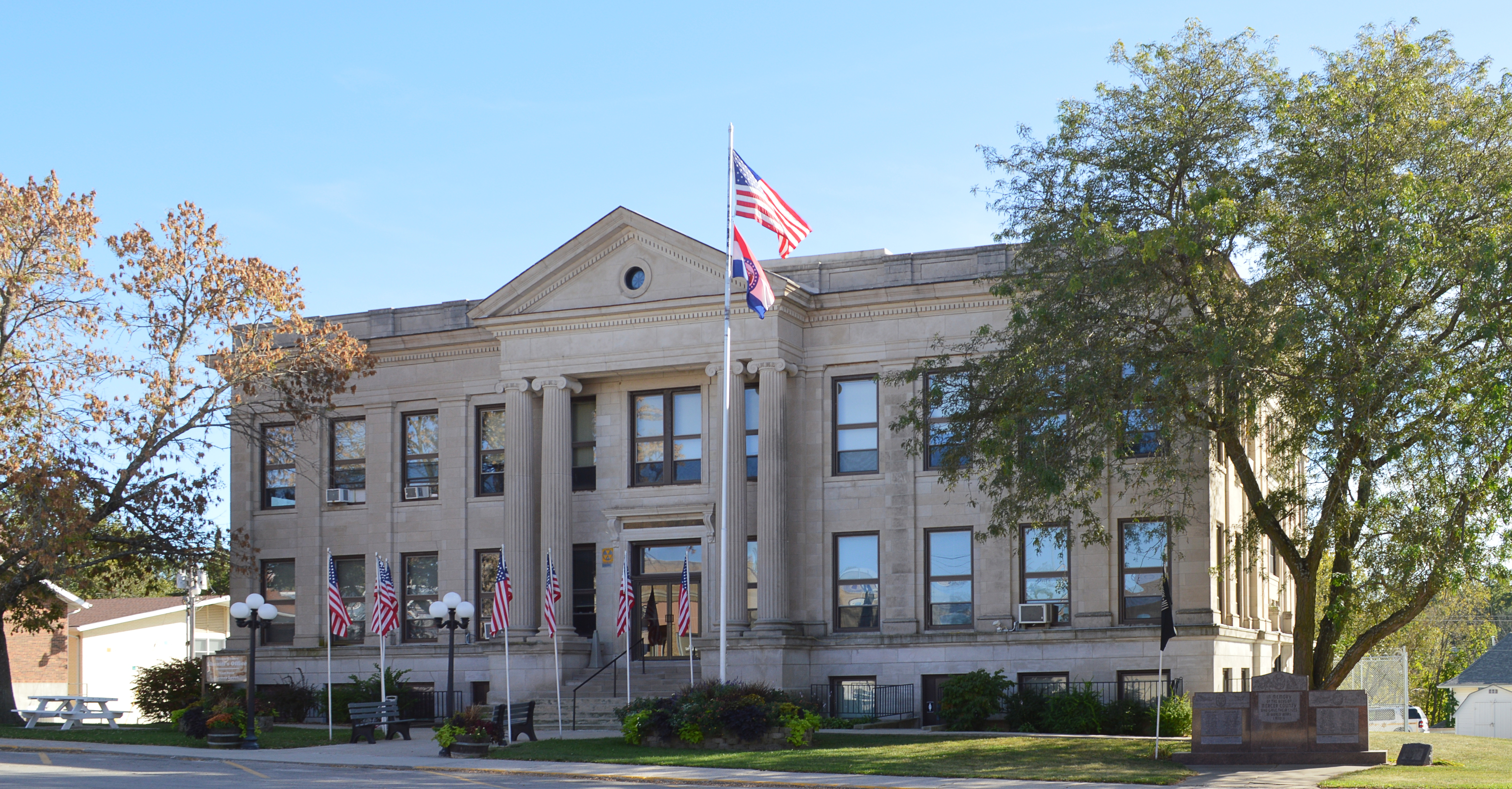 Mercer County, Missouri courthouse in Princeton